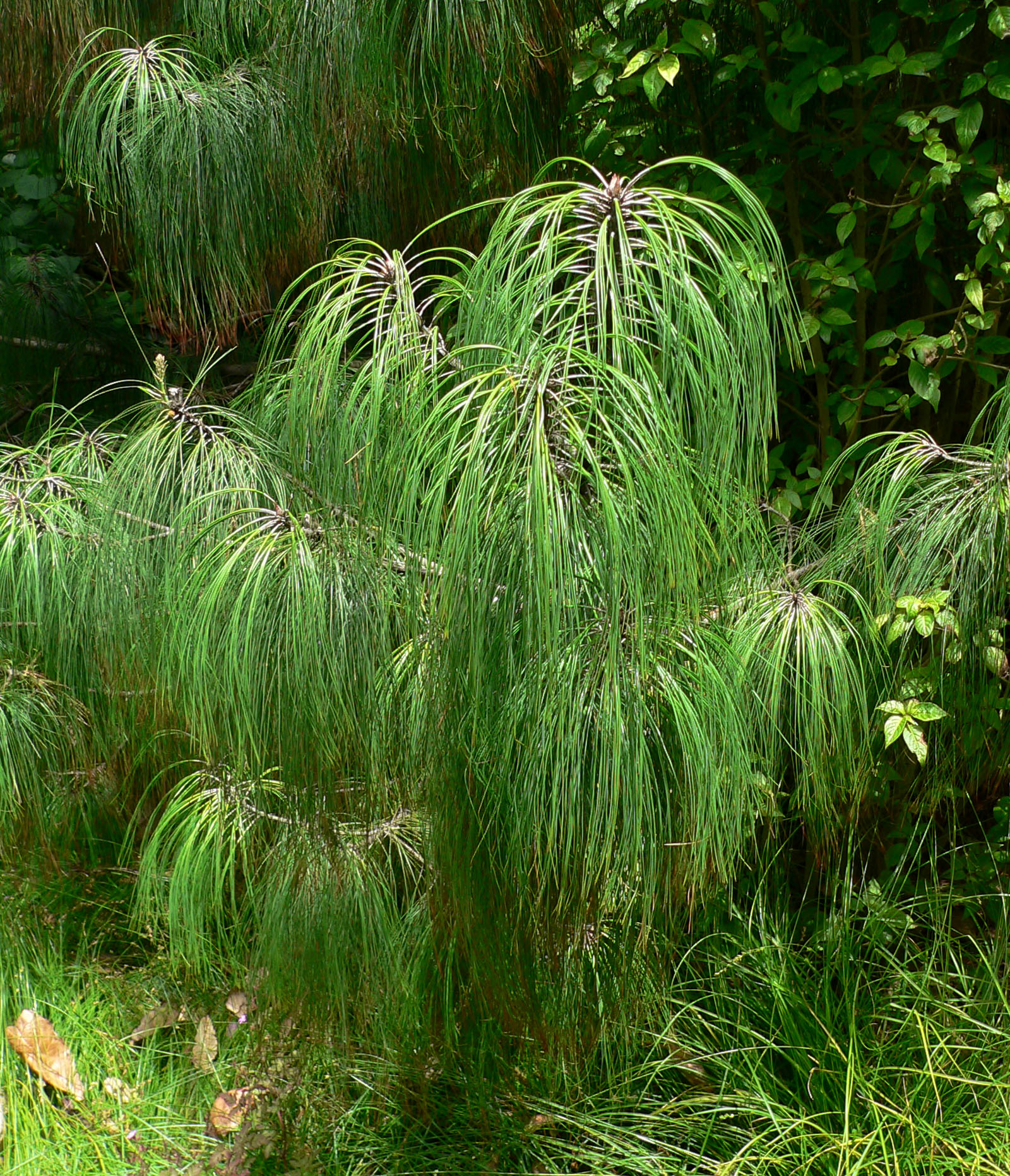 Pinus apulcensis (labelled Pinus oaxacana) at the San Francisco Botanical Garden